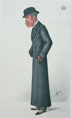 Caricature of The Earl of Ellesmere. Caption read "Bridgewater House".